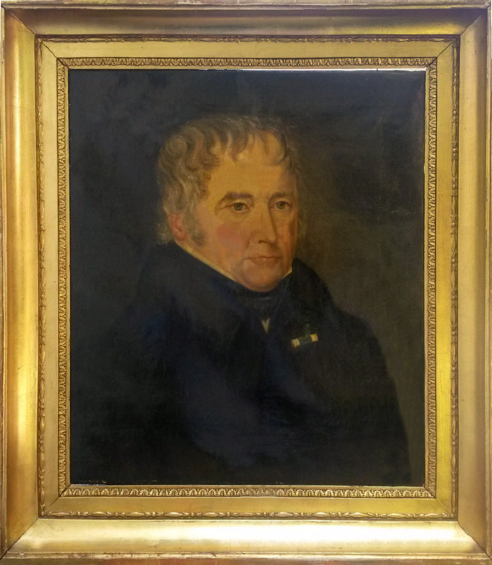 Portrait of Bernhard von Ernsdorfer